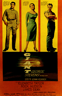 US theatrical poster for the film Giant (1956).